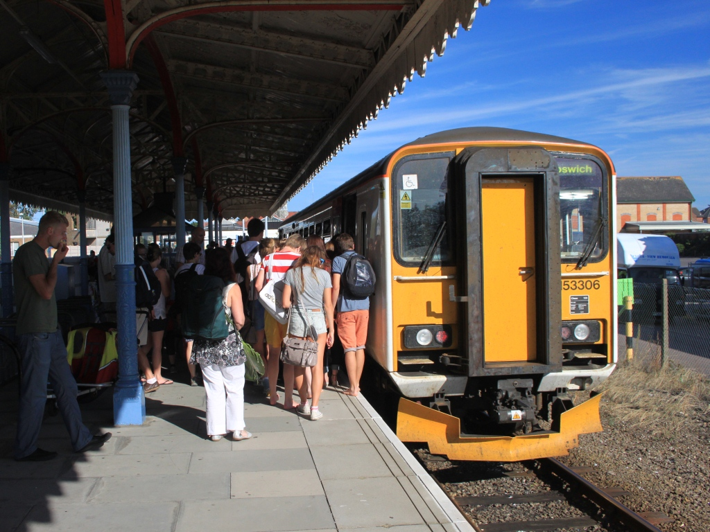 A sunny saturday afternoon brings more people to Felixstowe than the usual single car Class 153 can cope with. Passengers are crowding into 153306 for the trip back home to Ipswich.